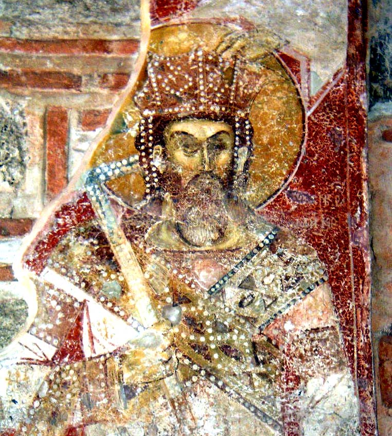 Icon of King Marko. St. Michael the Archangel Church, Varoš Monastery, Prilep, Macedonia